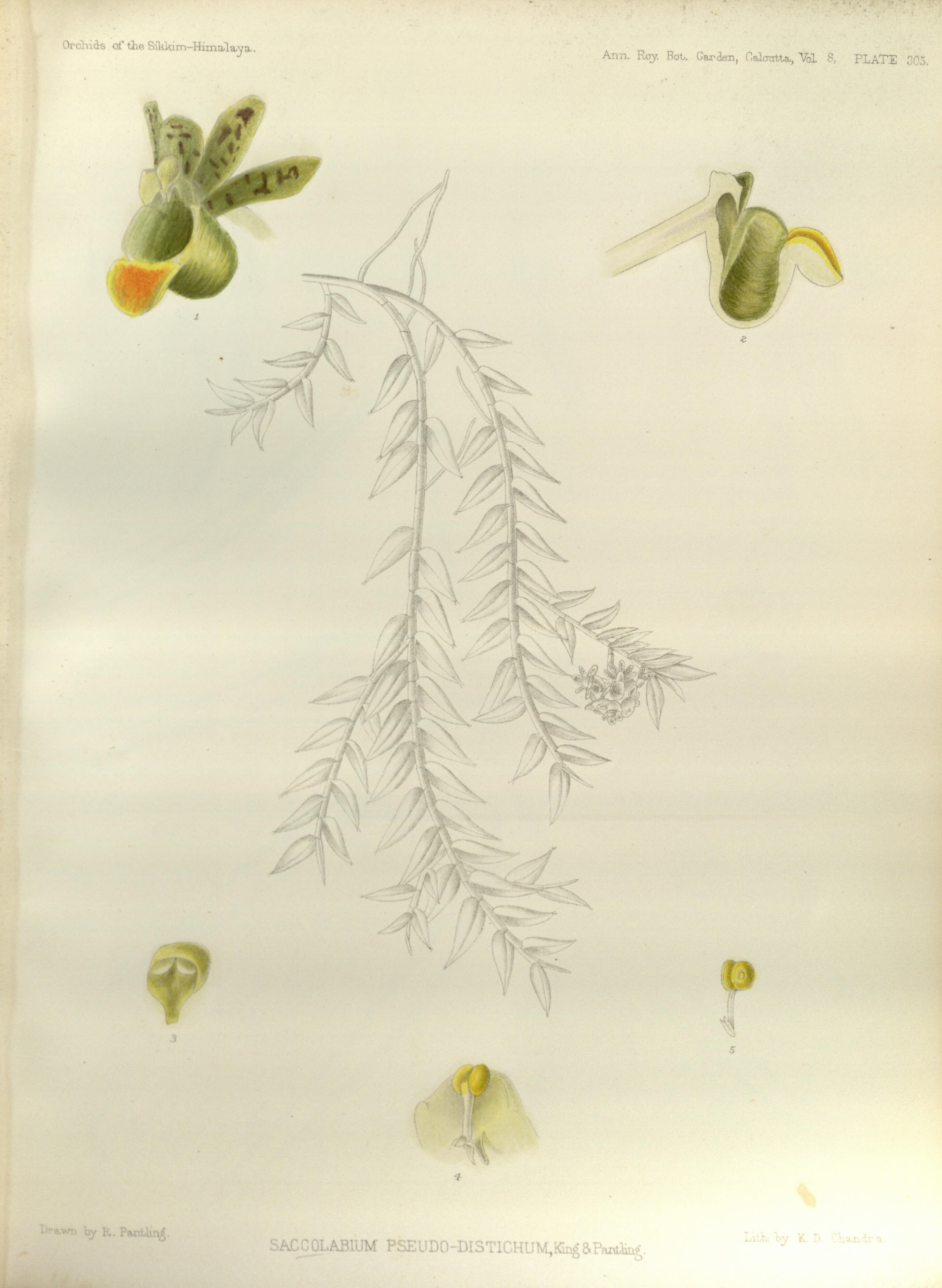 Gastrochilus pseudodistichus